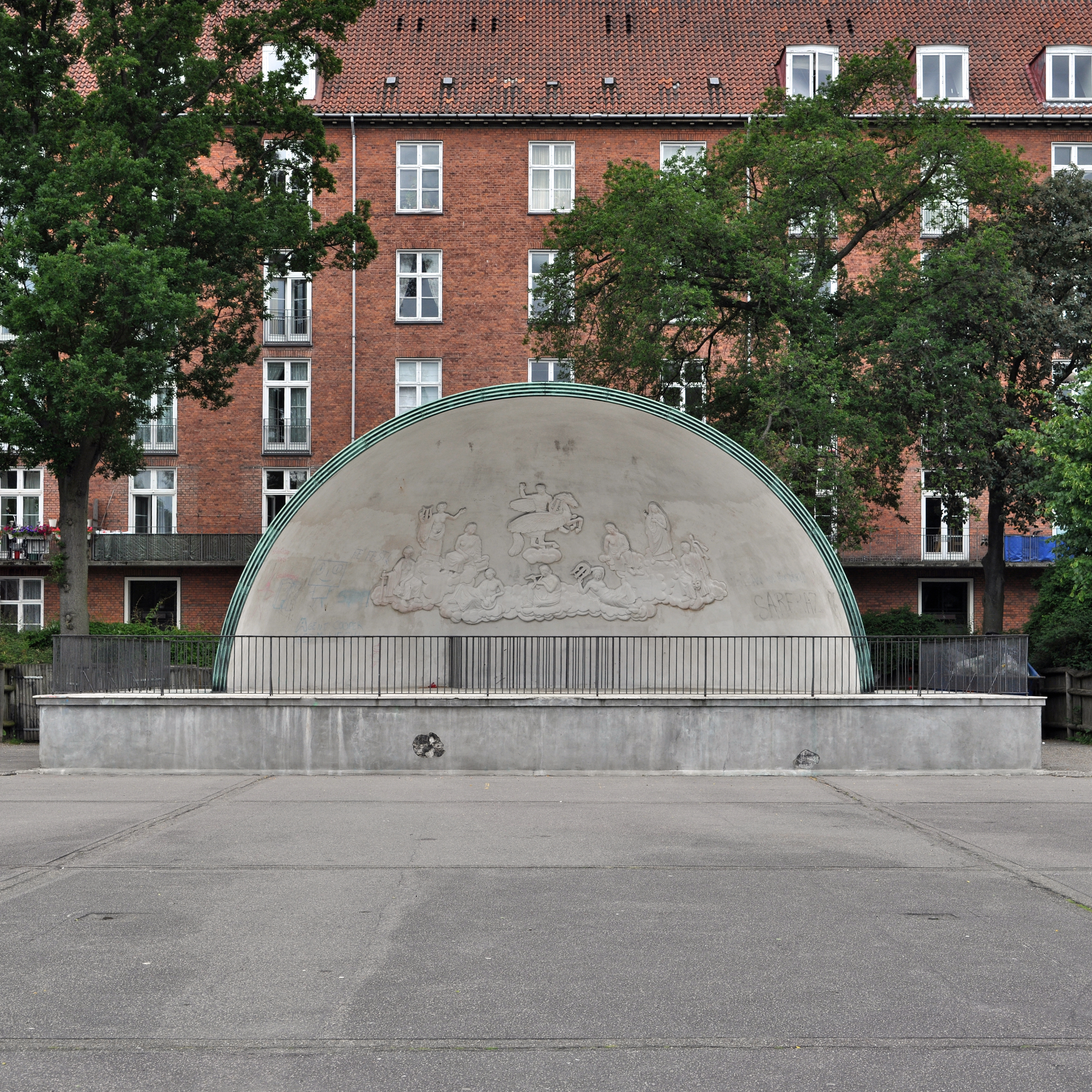 The bandshell in Enghaveparken in the Vesterbro district of Copenhagen, Denmark. Designed by Arne Jacobsen (who worked for City Architect Poul Holsøe as his first job after graduating) and built in 1927-1928.